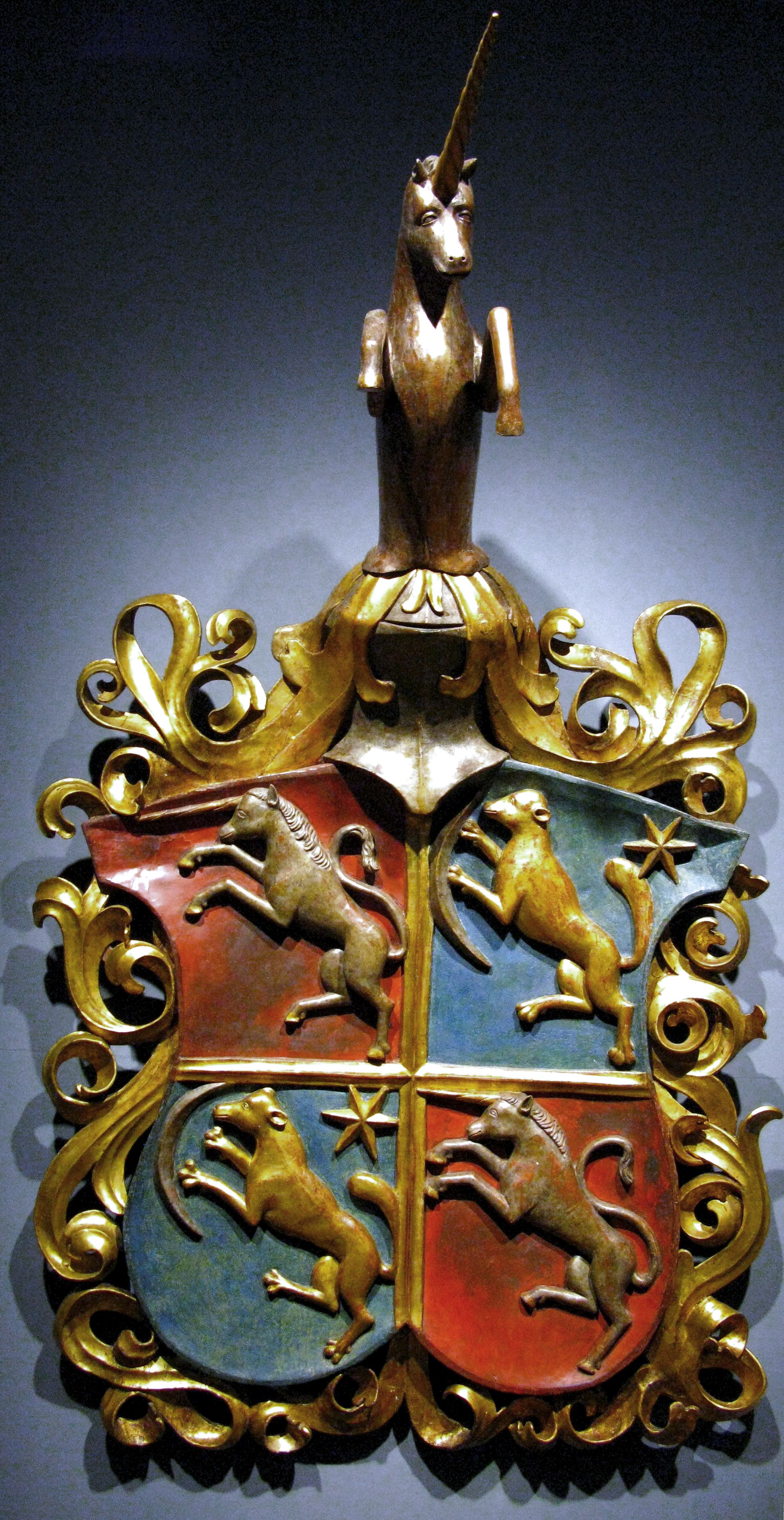 Zápolya coat of arms 1499